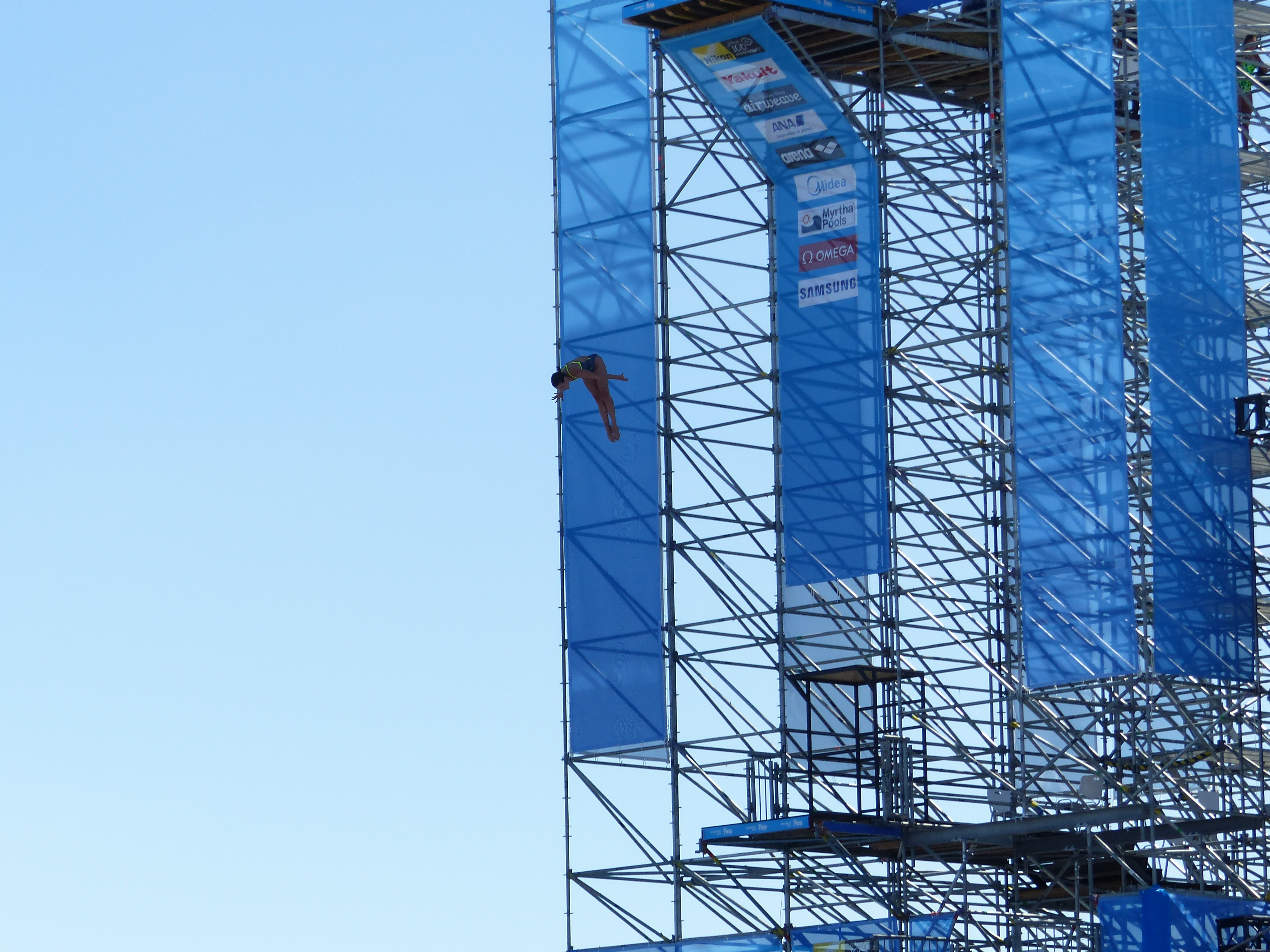 Anna Bader, GER, 283.40. Taken on Saturday, 29th of July, 2017. 2017 World Aquatic Championships, Budapest, Hungary, Central Europe. Women’s 20m High Dive Final Resultsː Rhiannan Iffland, AUS, 320.70, Adriana Jimenez, MEX, 308.90, Yana Nestsiarava, BLR, 303.95, Tara Tira, USA, 299.50, Anna Bader, GER, 283.40